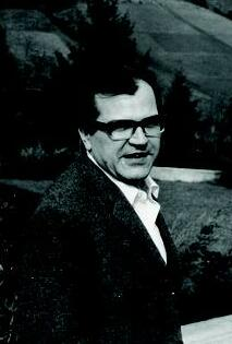 Picture of Zbigniew Ciesielski